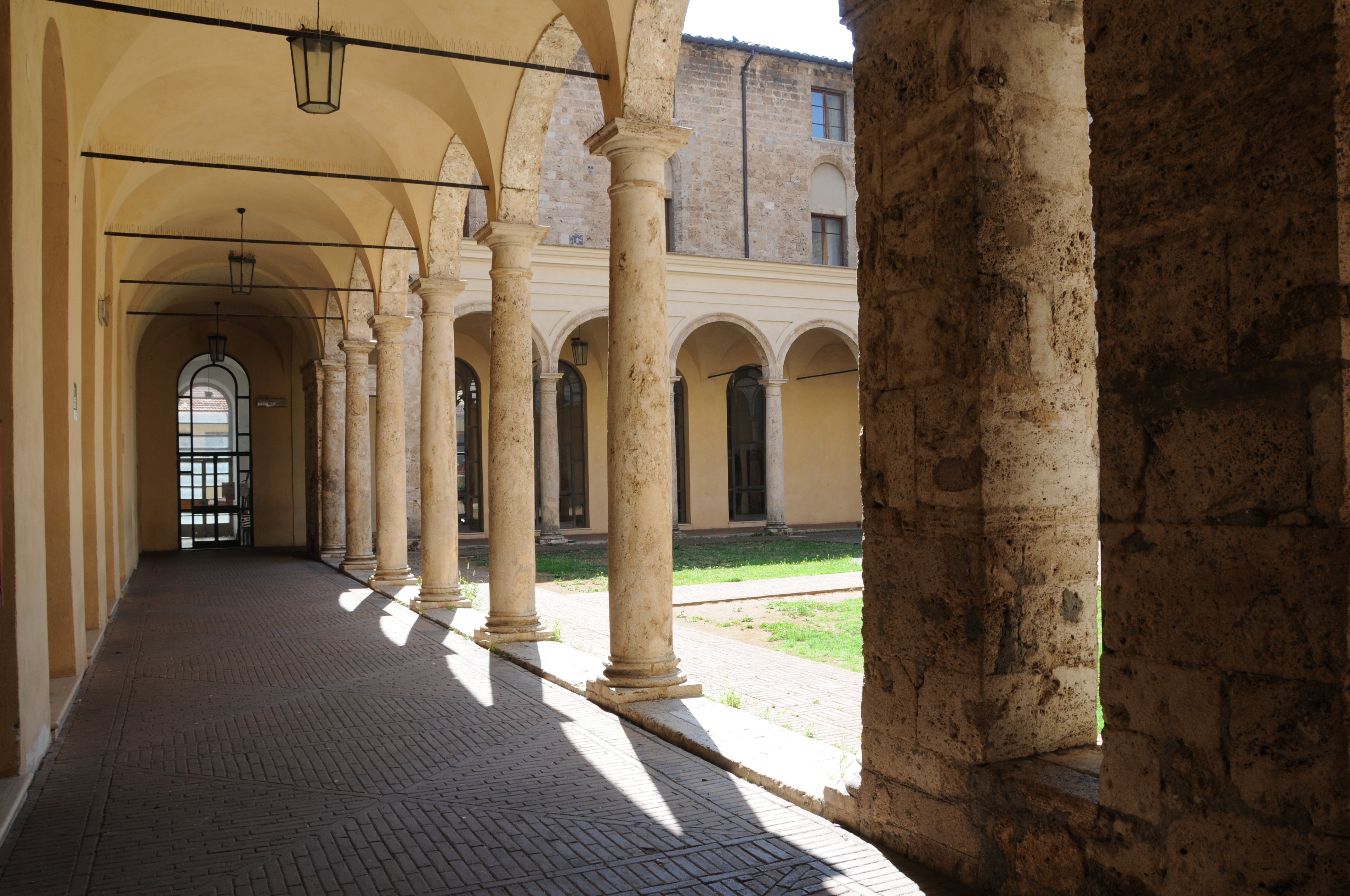 Cloister of the church of St. Augustine - Rieti (Lazio, Italy)